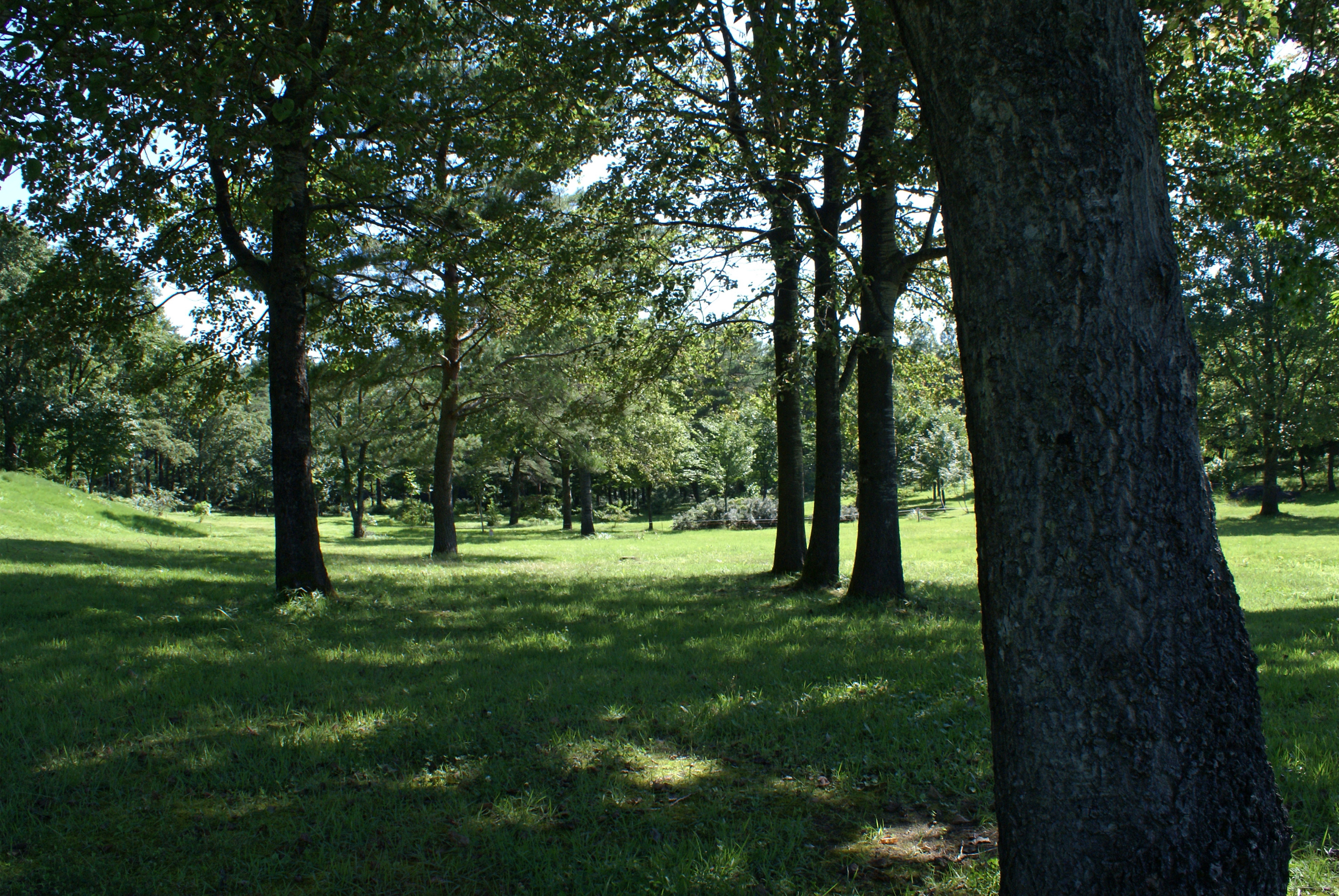 Torokawataira, Kami, Hyogo prefecture, Japan